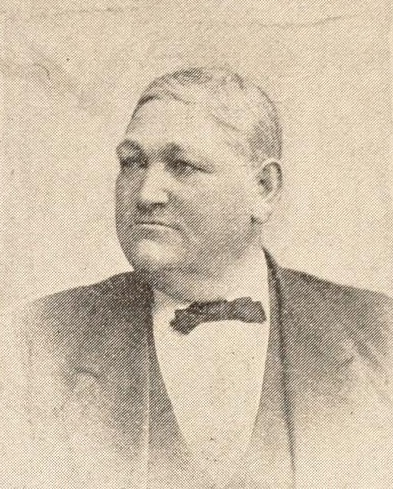 Portrait of New York state senator Hobart Krum